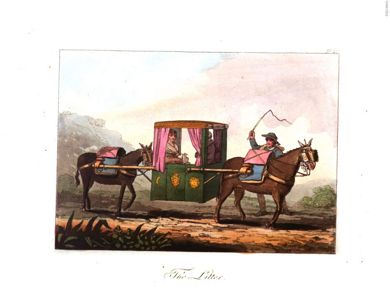 1762108 4 Port. 5 nd 1762108 4 Port. 5 nd